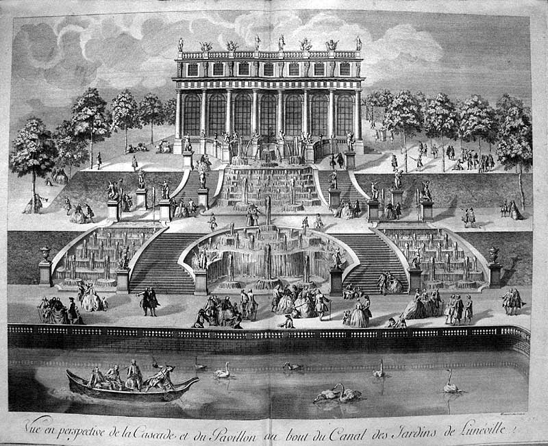 View of the Cascade and Pavillion at the Canel in the gardens of Lunéville in the 18th century